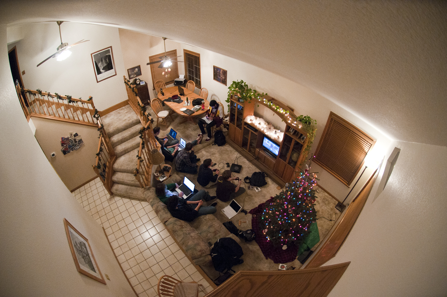 Playstation 3 LAN Party